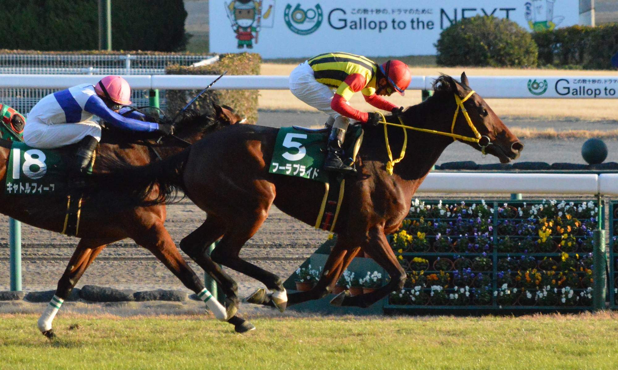 Japanese race horse Hula Bride at Chukyo racecourse. Chukyo (JPN) 14 Dec 2013 Aichi Hai Stakes (Grade 3) (Turf) (3yo+) 1m2f Firm RankHorse NameOddsAgeWgtTrainerJockey1stHula Bride (JPN)43/1F47-12Kazuyoshi KiharaManabu Sakai2ndQuatre Feuilles (JPN)49/1F48-0Katsuhiko SumiiKazuo Yokoyama3rdCosmo Nemo Shin (JPN)44/1M68-9Hidekatsu ShimizuYuji Tannai4th - 18th/omission